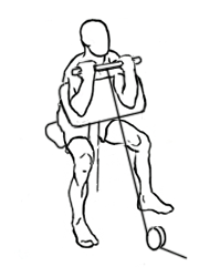 an exercise of biceps